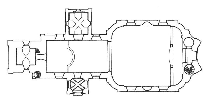 Ground plan of Church of St Peter and Paul in Horní Bobrová by Jan Santini Aichel